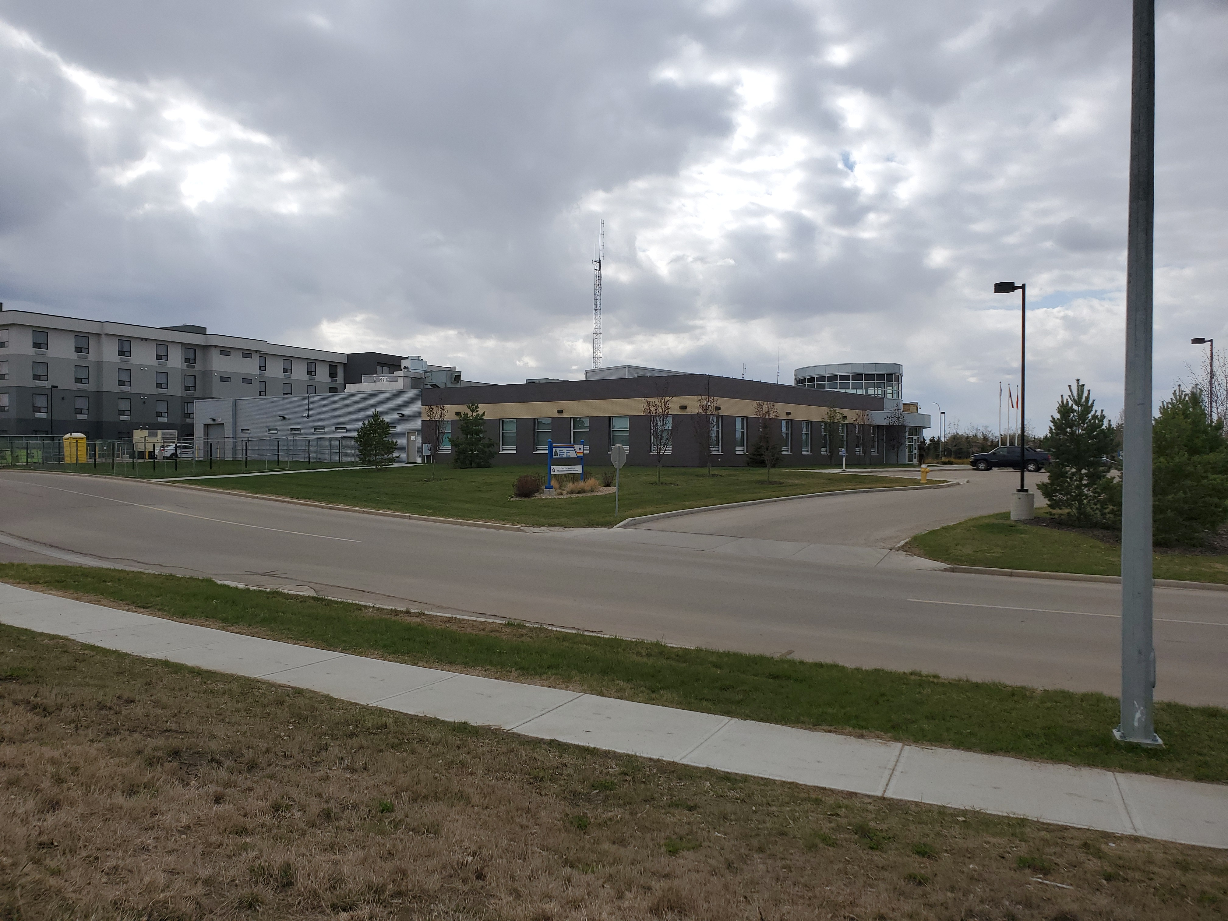 Fort Saskatchewan's RCMP Detatchment